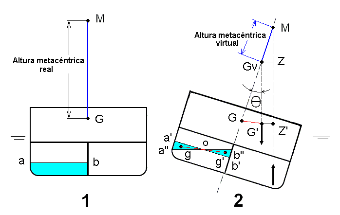 free surface efect on ship's stability